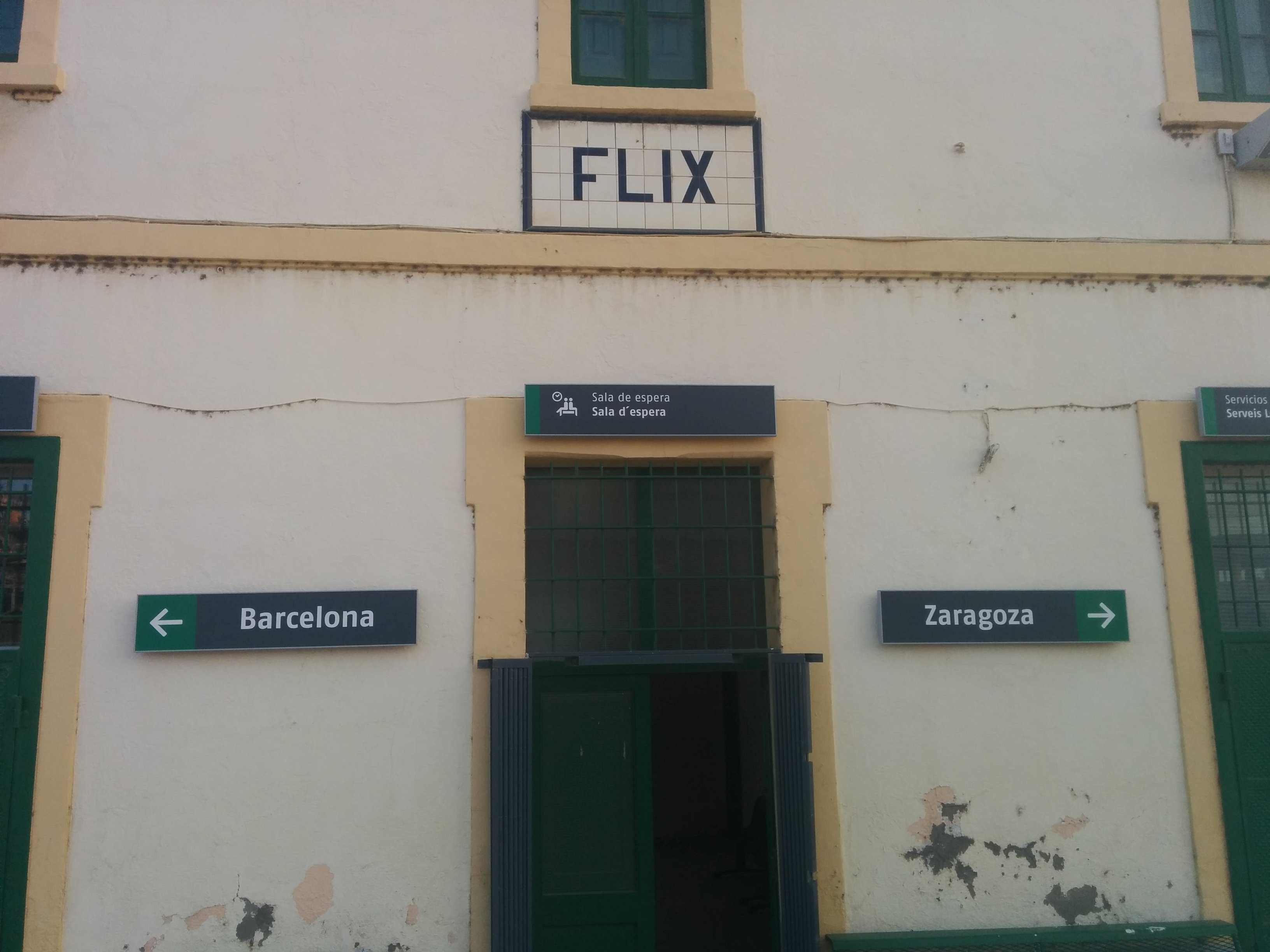 Flix, Train station of Flix, September 2015